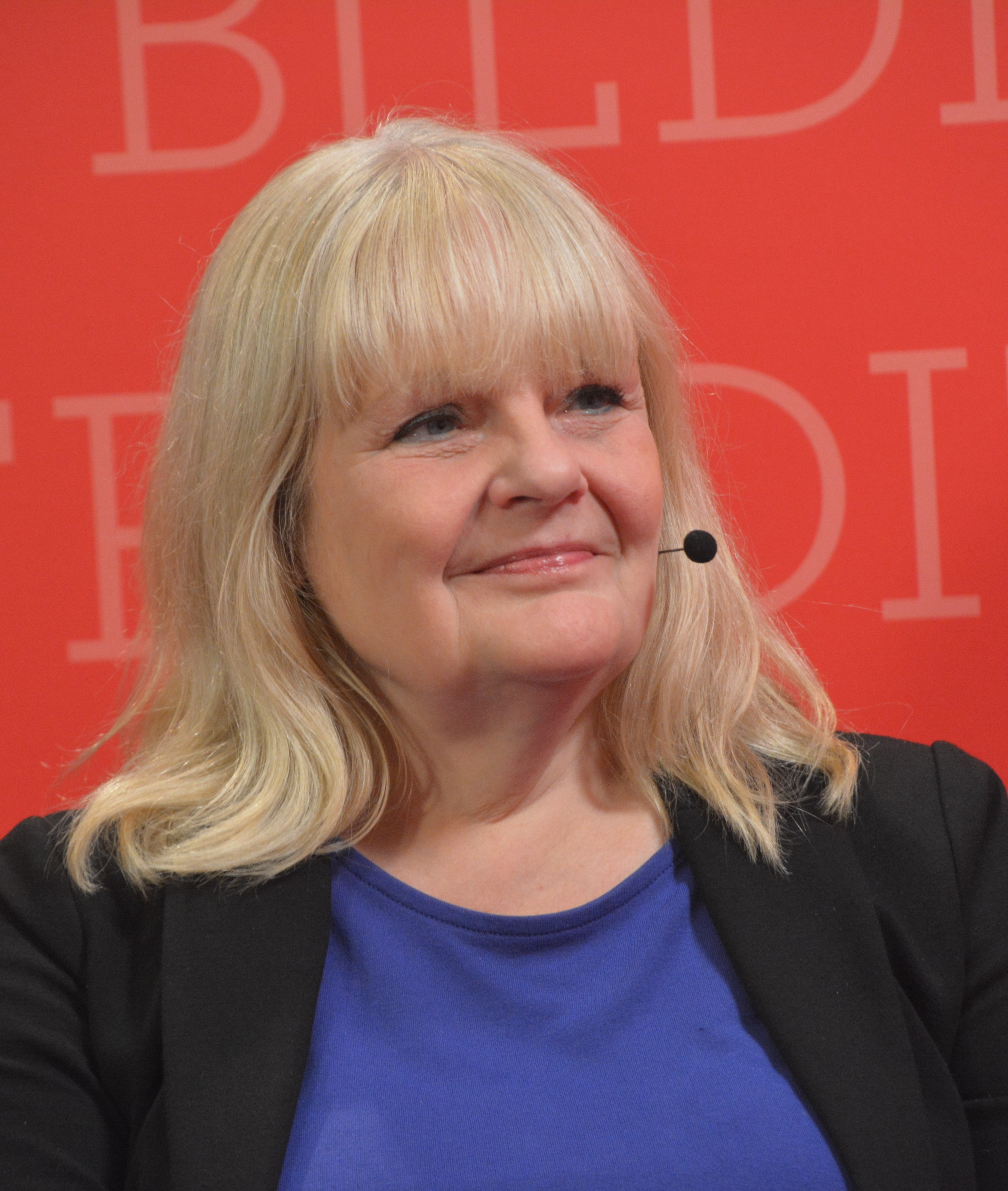 Maria Küchen at Göteborg Book Fair 2019